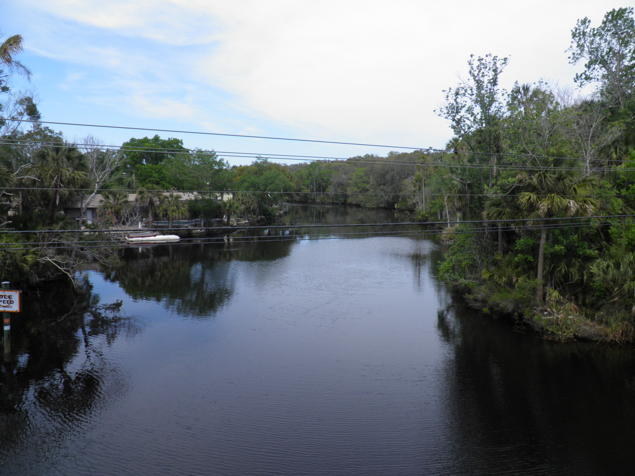 A view of the Tomoka River — with a section of the Tomoka River Paddling Trail and native swamp forest, in Volusia County, central-east Florida. View from the bridge crossing Florida State Road 40 in Ormond Beach.